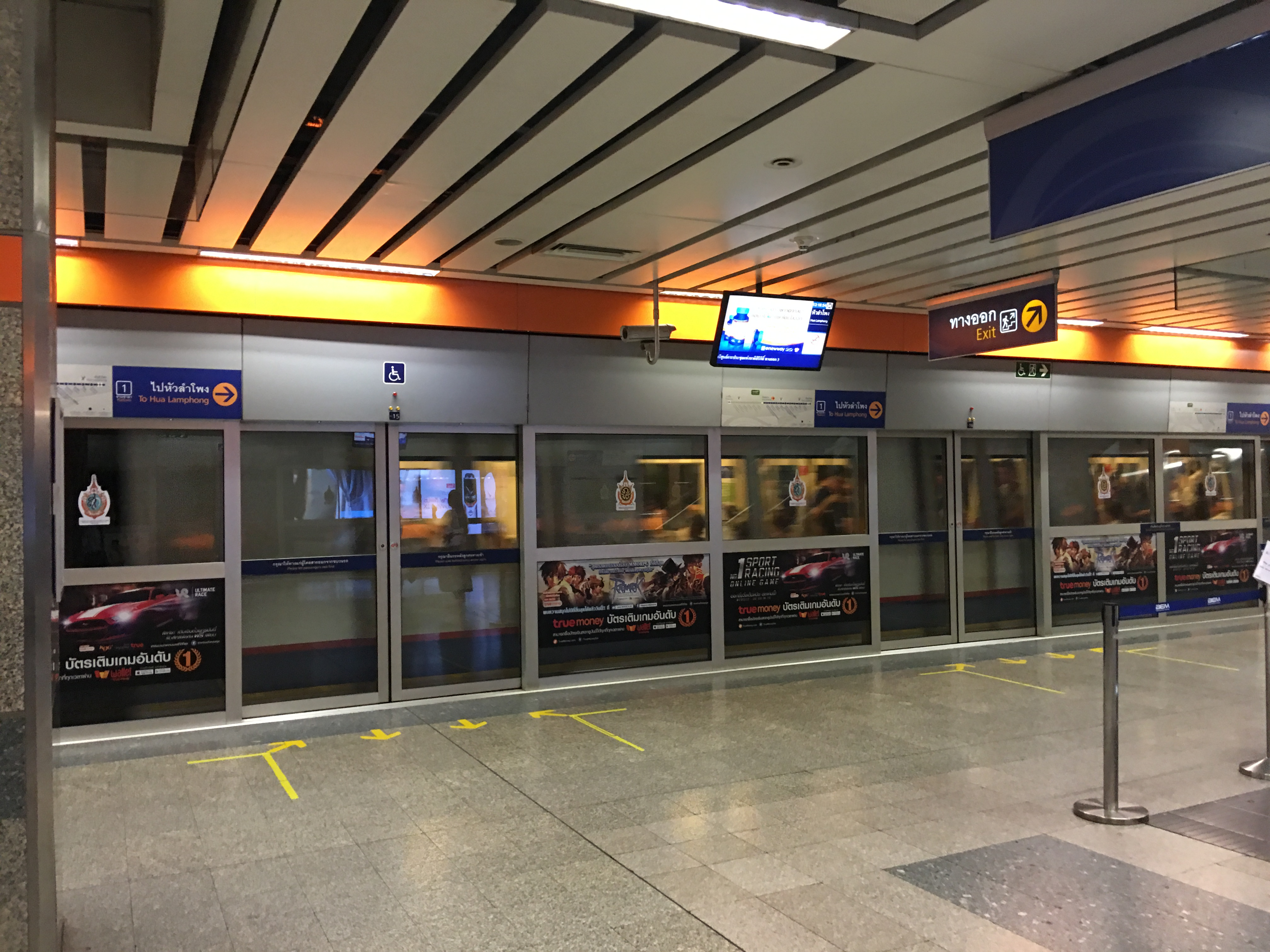 The platform level of Huai Khwang Station